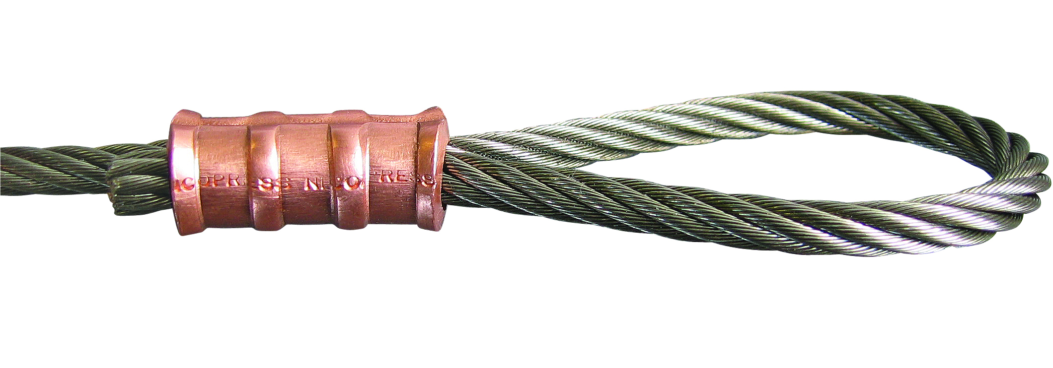 Nicopress Swaged Oval Sleeve